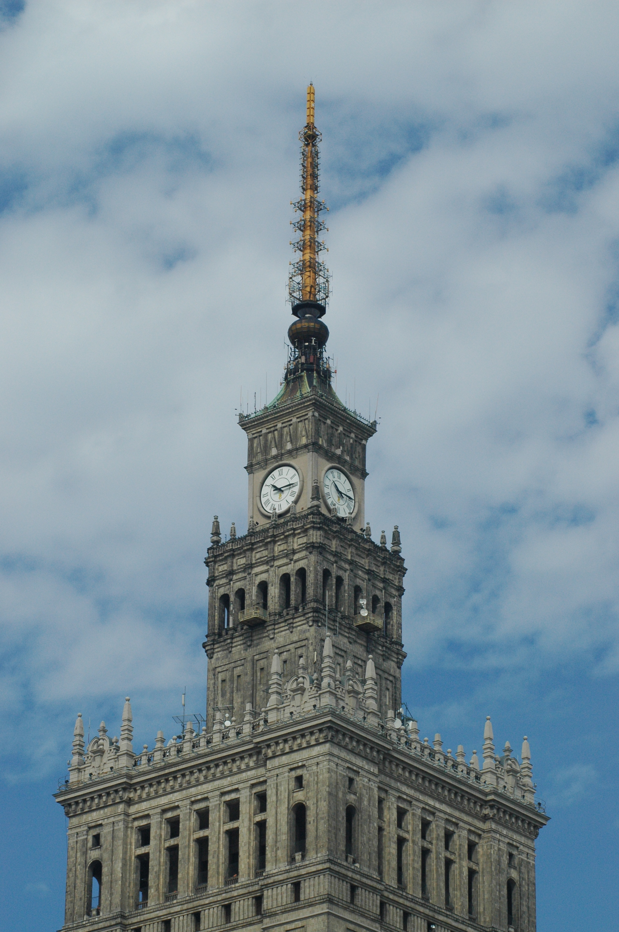 Made on a summer day in Warsaw Closeup of the highest clock tower in the world